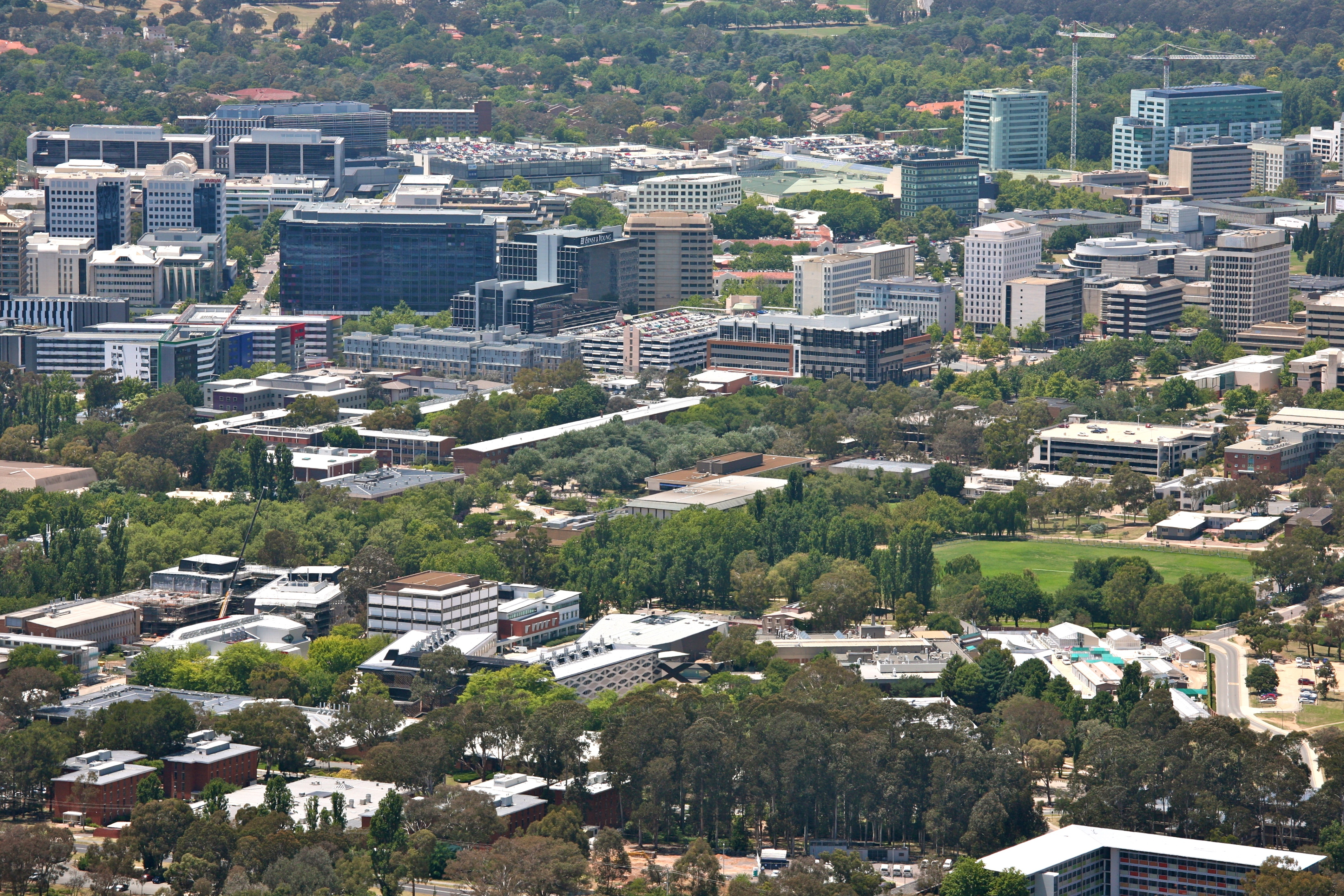 The City of Canberra